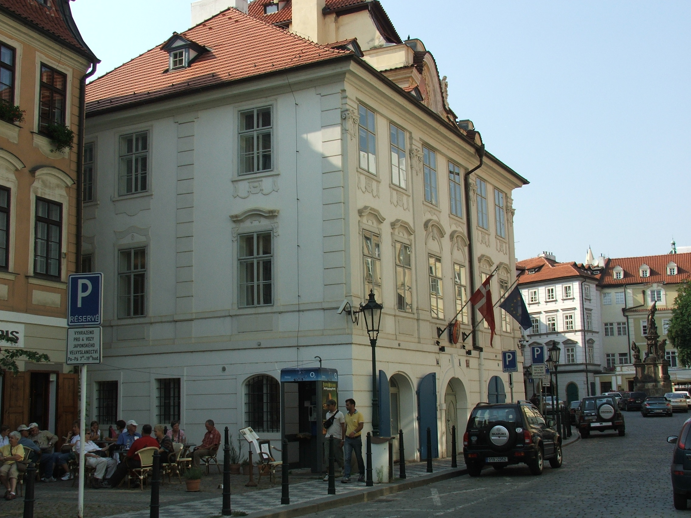 Embassy of Denmark in Prague - Malá Strana, Czechia Maltézské náměstí No. 5